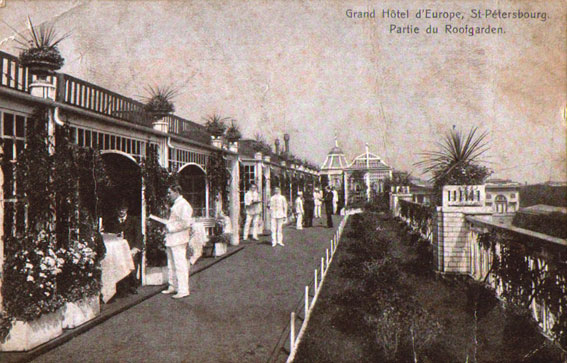 Grand Hotel Europe in 1900s